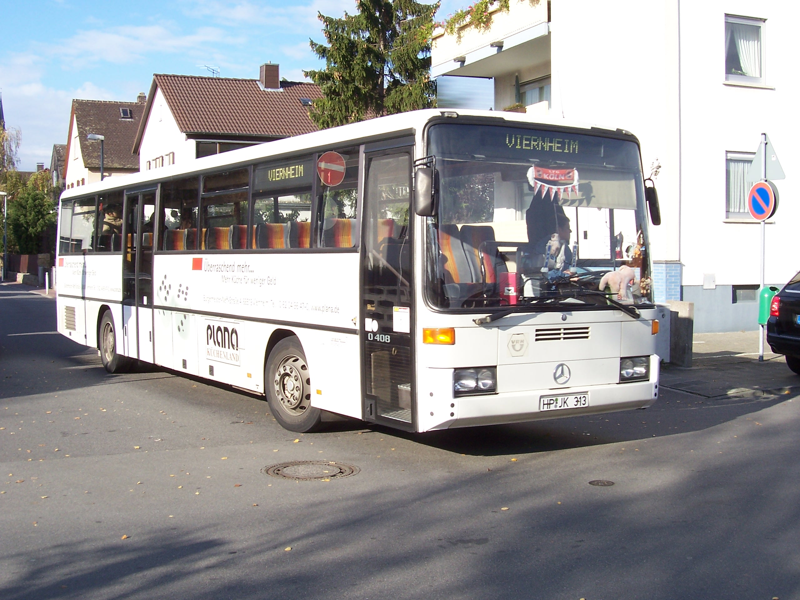 A Mercedes-Benz O 408 bus in Viernheim, Germany My own photo from 7-nov-2005